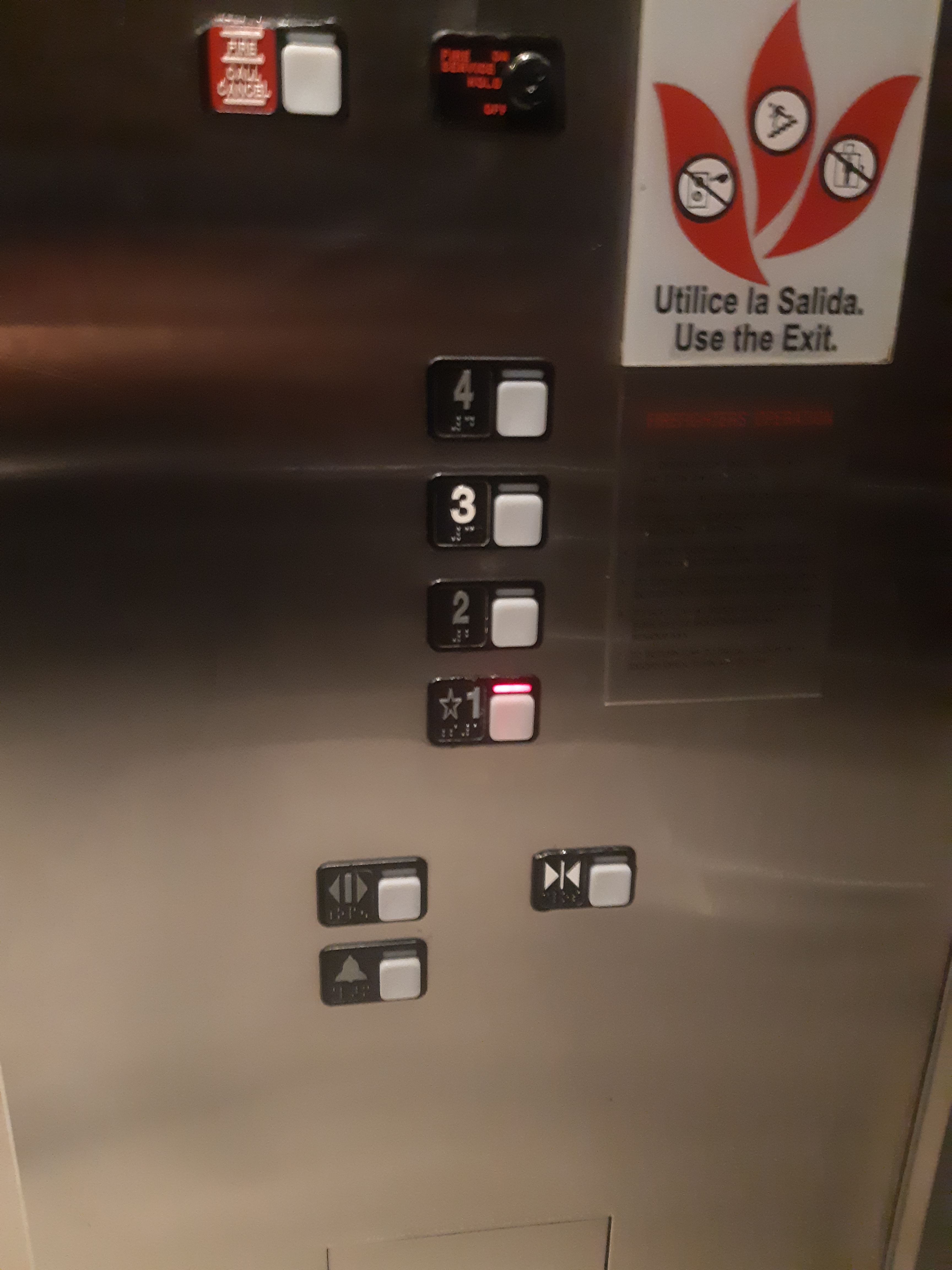 Macy's Plaza las Américas in San Juan